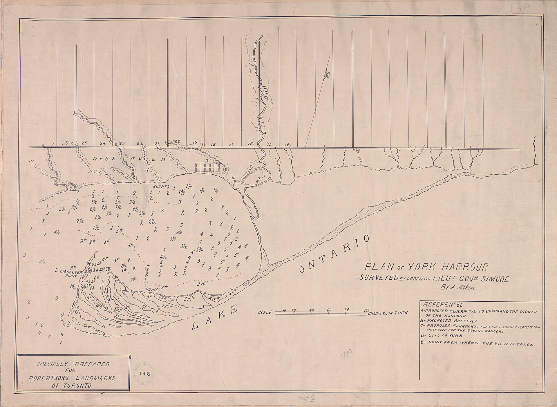 A map of York Harbour (now Toronto Harbour noting the site for the city of York, Upper Canada (ten blocks labelled with 'D'). The proposed site for Fort York is labelled with a 'C' at the mouth of the stream furthest to the left. The Don River is also marked.